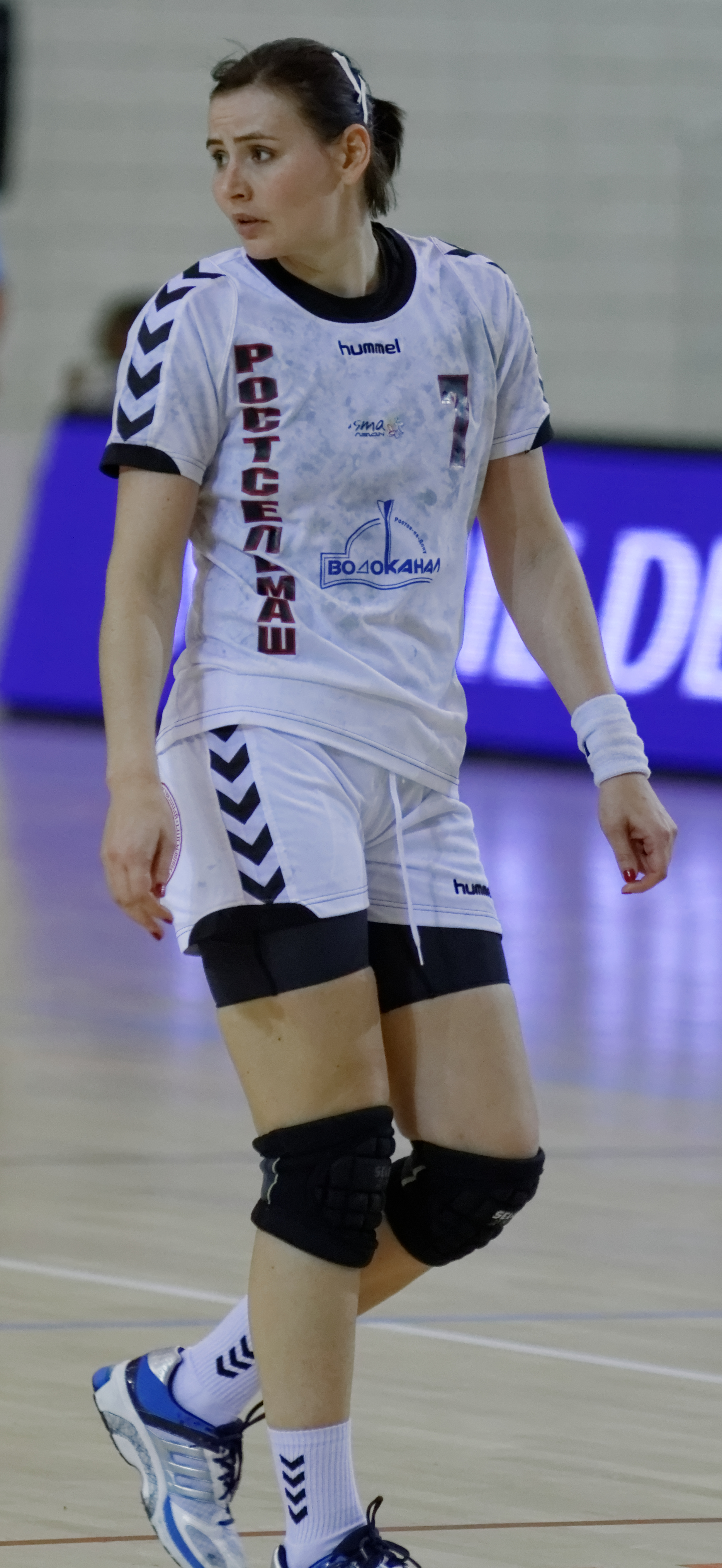 Semi-final EHF Cup Winners' Cup. Issy Paris Hand - Rostov-Don , 5 April 2013. Maya Petrova (Rostov Don).